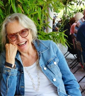 Esther Wierzbicki Ziv